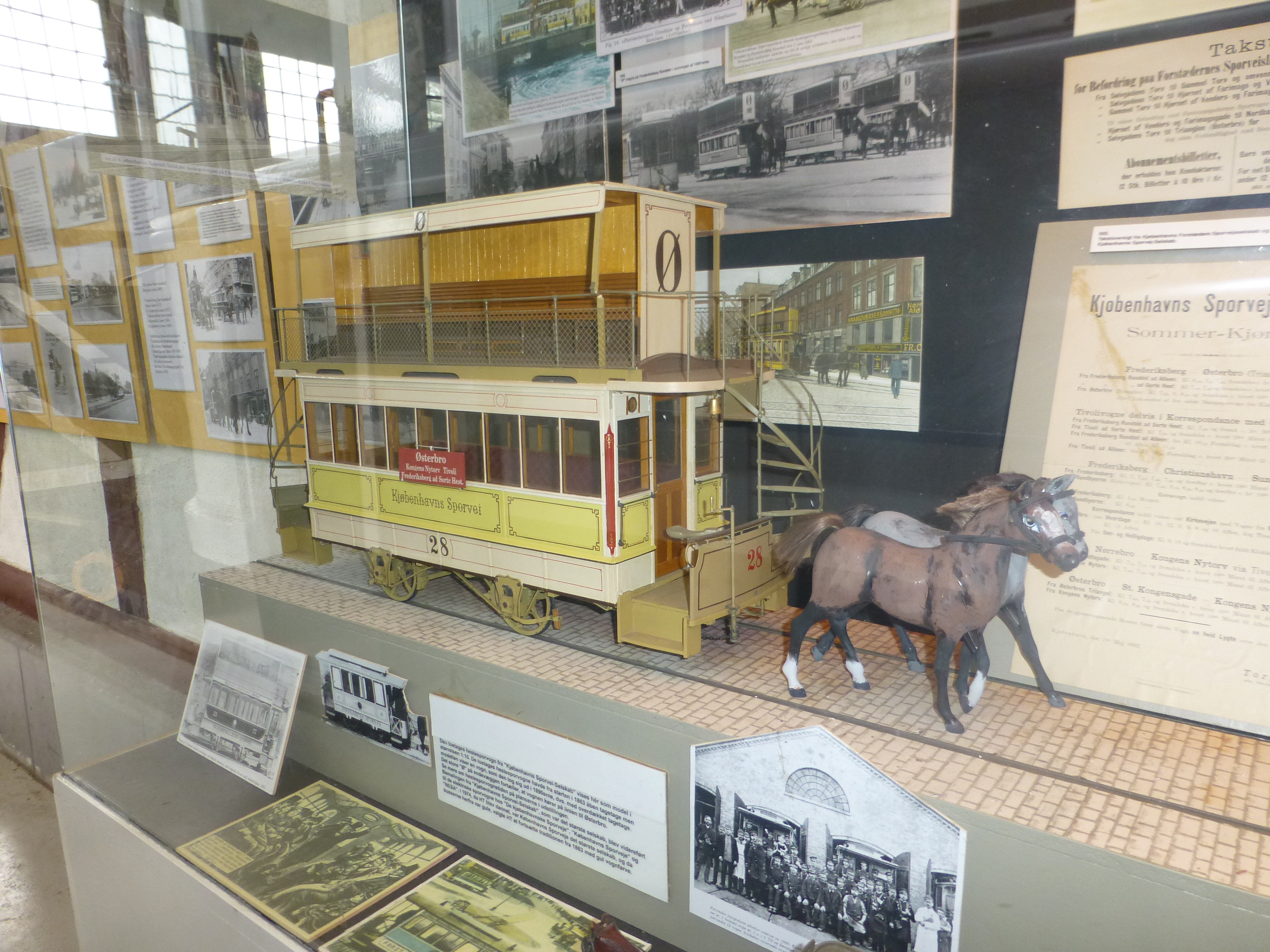 Model of horse-drawn tram from Copenhagen KSS 28 at Sporvejsmuseet Skjoldenæsholm in Denmark.